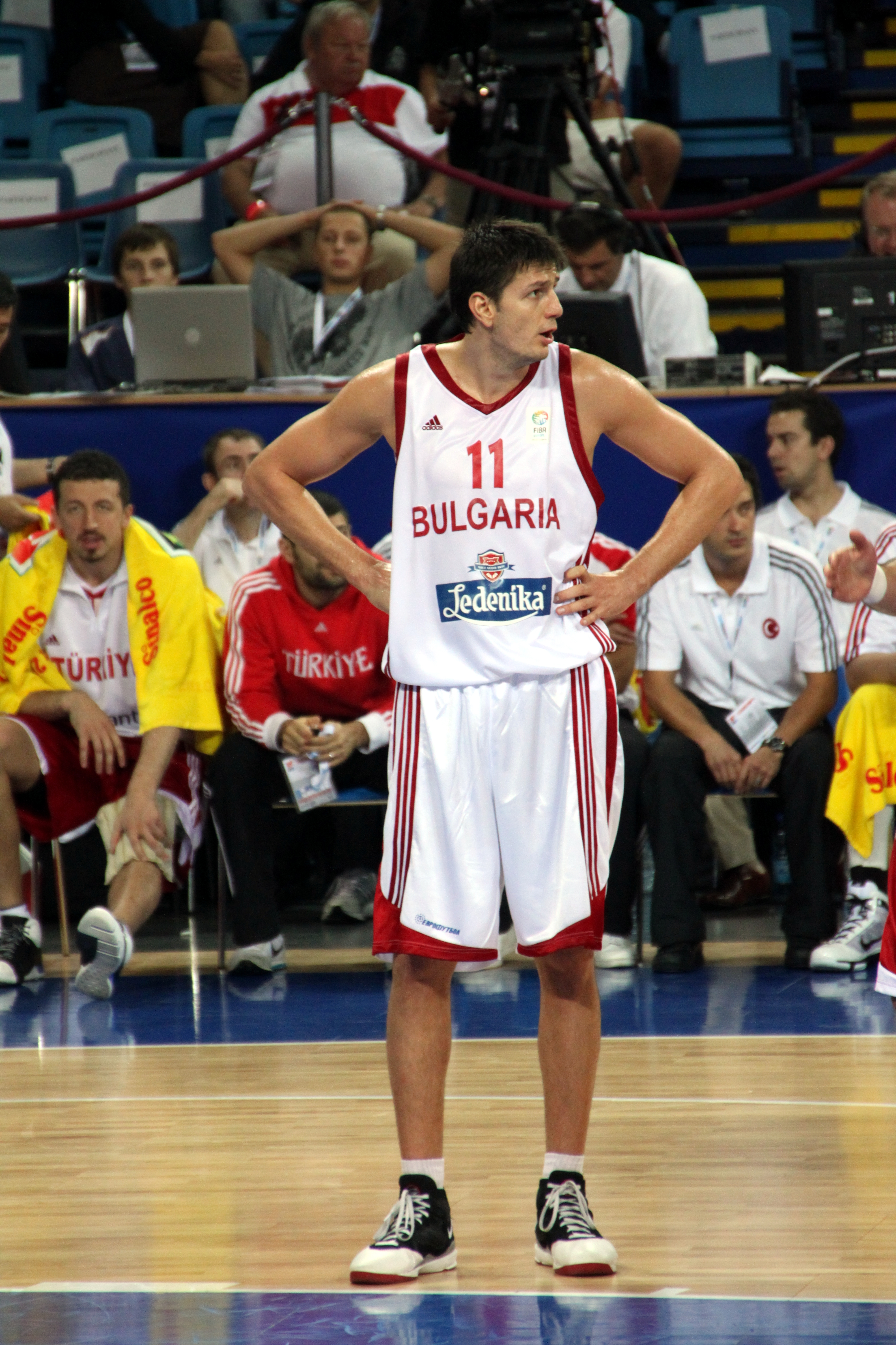 Dimitar Angelov during EuroBasket 2009.